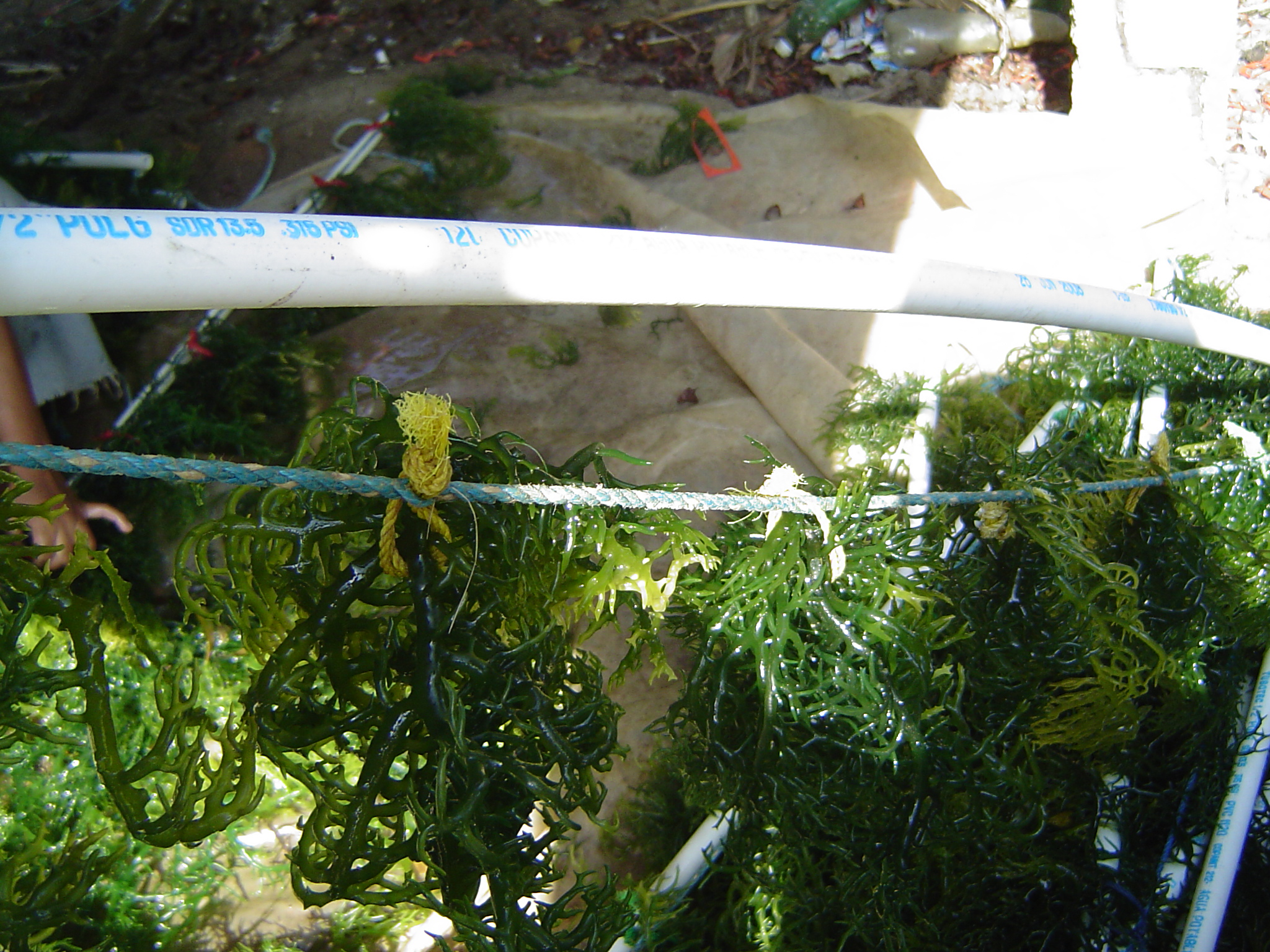 Eucheuma grown on a monoline